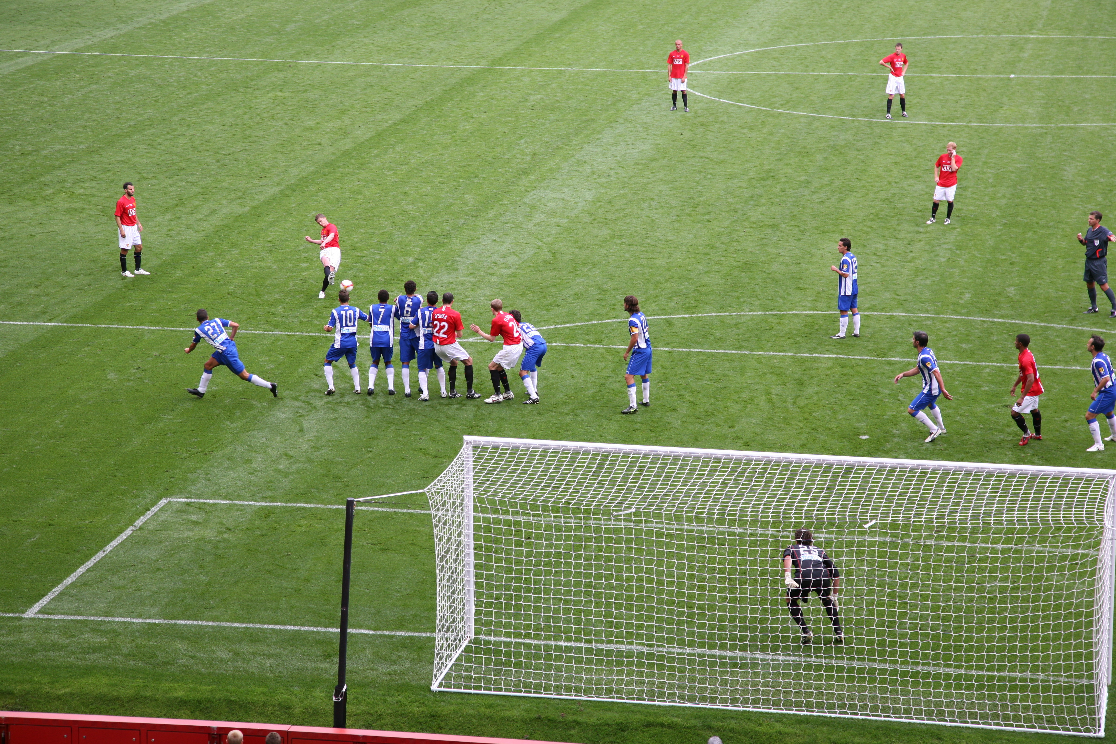 Ole Gunnar Solskjær in action in his testimonial match - Manchester United vs RCD Espanyol